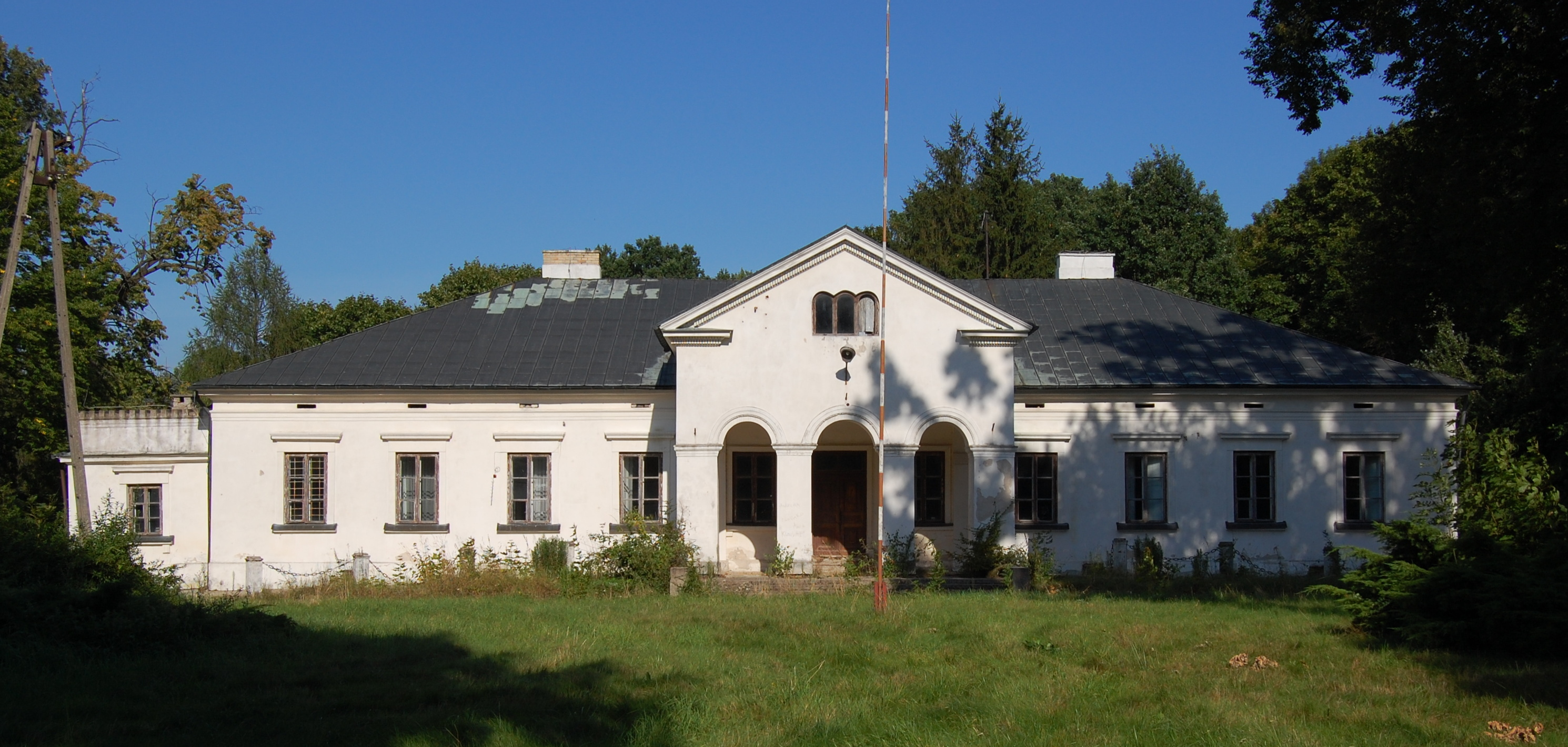 Old manor house, Jarczew, Lublin Voivodeship, Poland. Abanded presently.